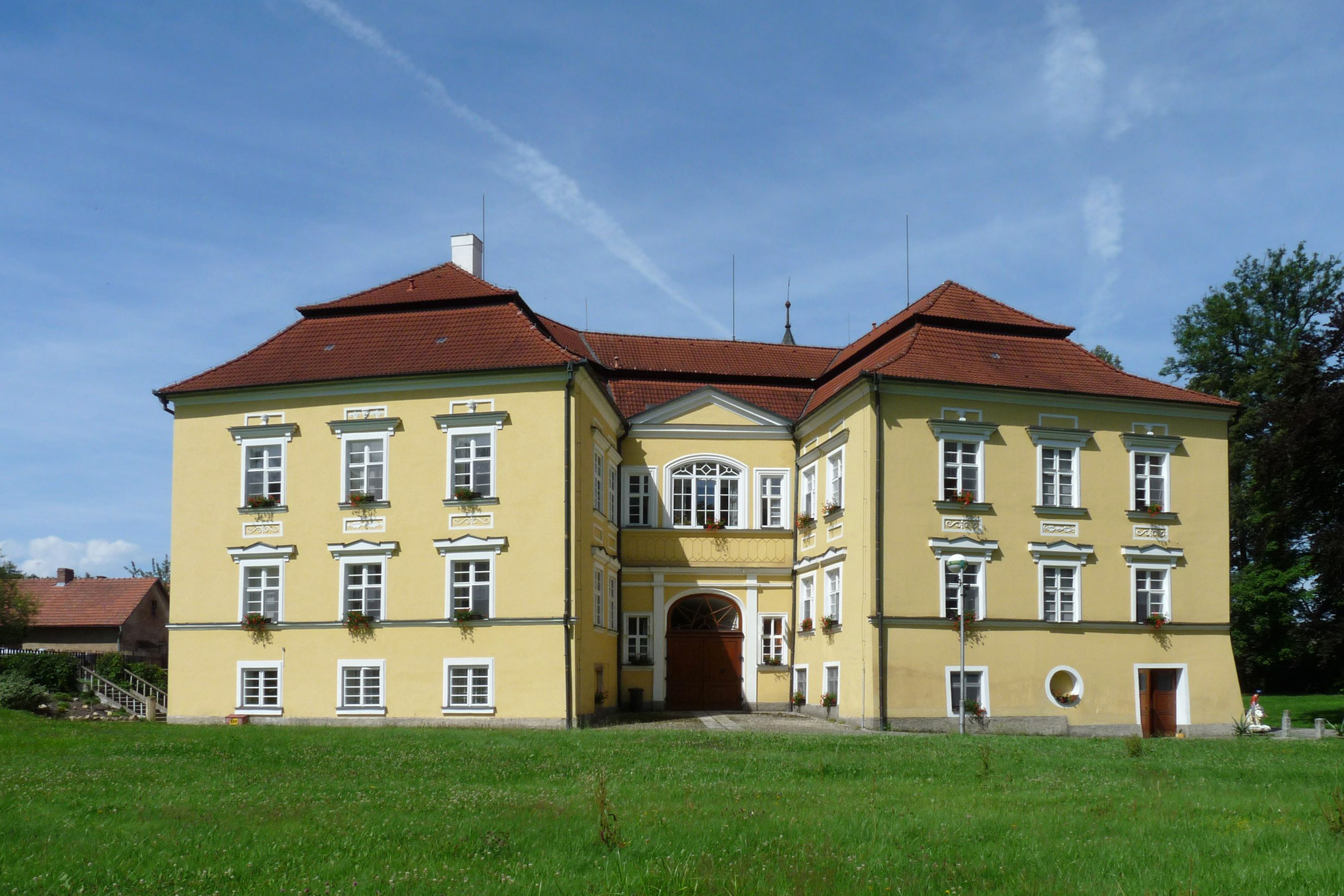 Former chateau Proseč-Obořiště in the village of the same name in Pelhřimov District, Czech Republic, nowadays a retirement home.